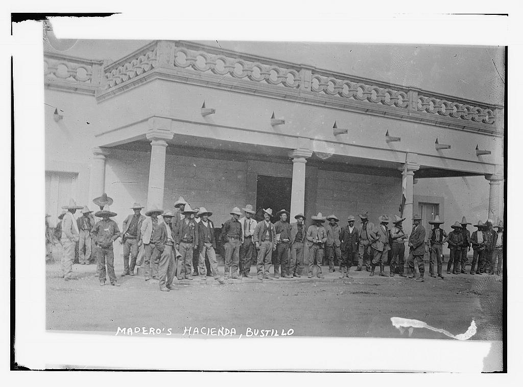 Bain News Service,, publisher. Madero's Hacienda, Bustillo [between 1910 and 1915] 1 negative : glass ; 5 x 7 in. or smaller. Notes: Title from unverified data provided by the Bain News Service on the negatives or caption cards. Forms part of: George Grantham Bain Collection (Library of Congress). Subjects: Mexico Format: Glass negatives. Repository: Library of Congress, Prints and Photographs Division, Washington, D.C. 20540 USA, General information about the Bain Collection is available at Persistent URL: Call Number: LC-B2- 2195-3